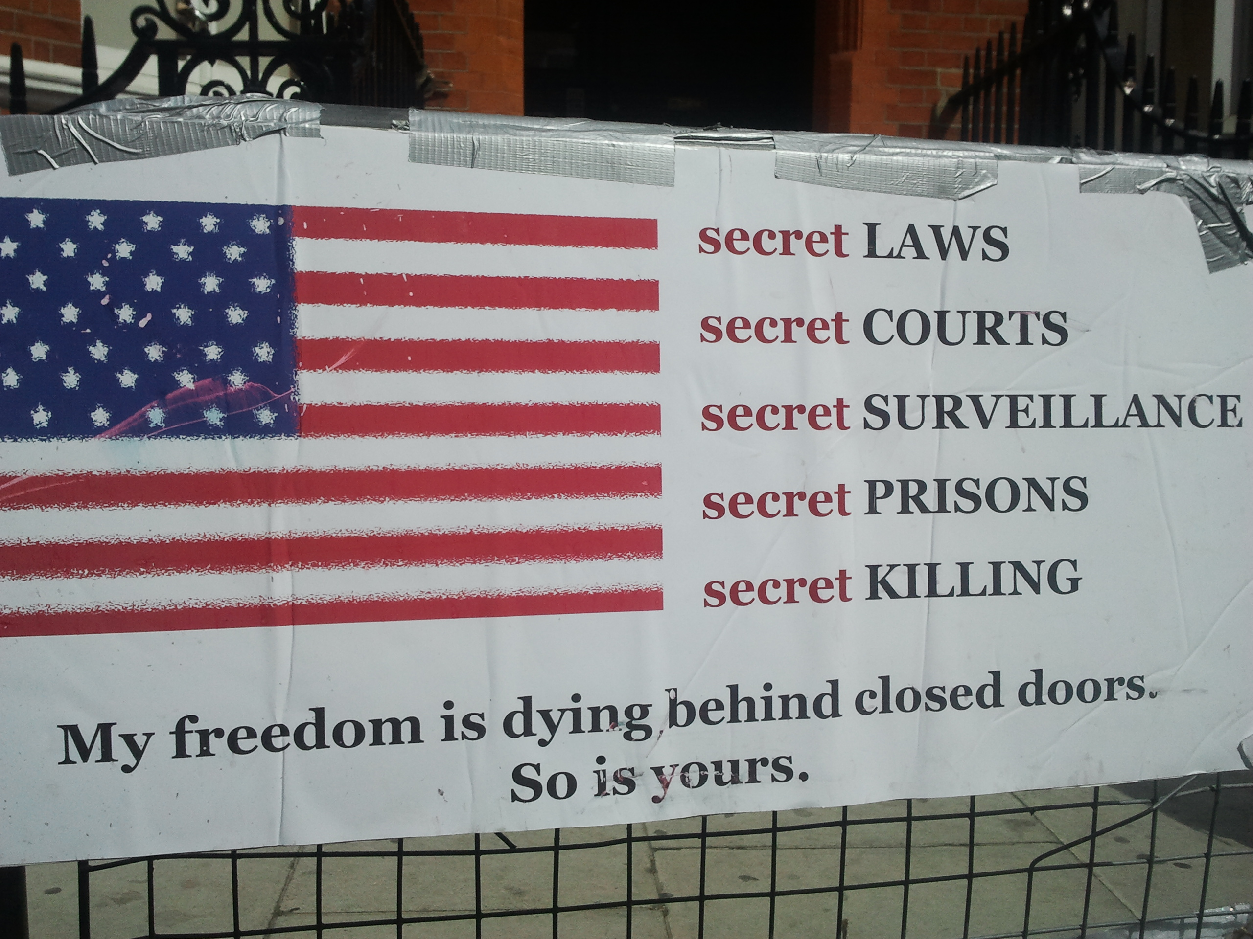 Placard in front of Ecuador embassy, made by Julian Assange supporters